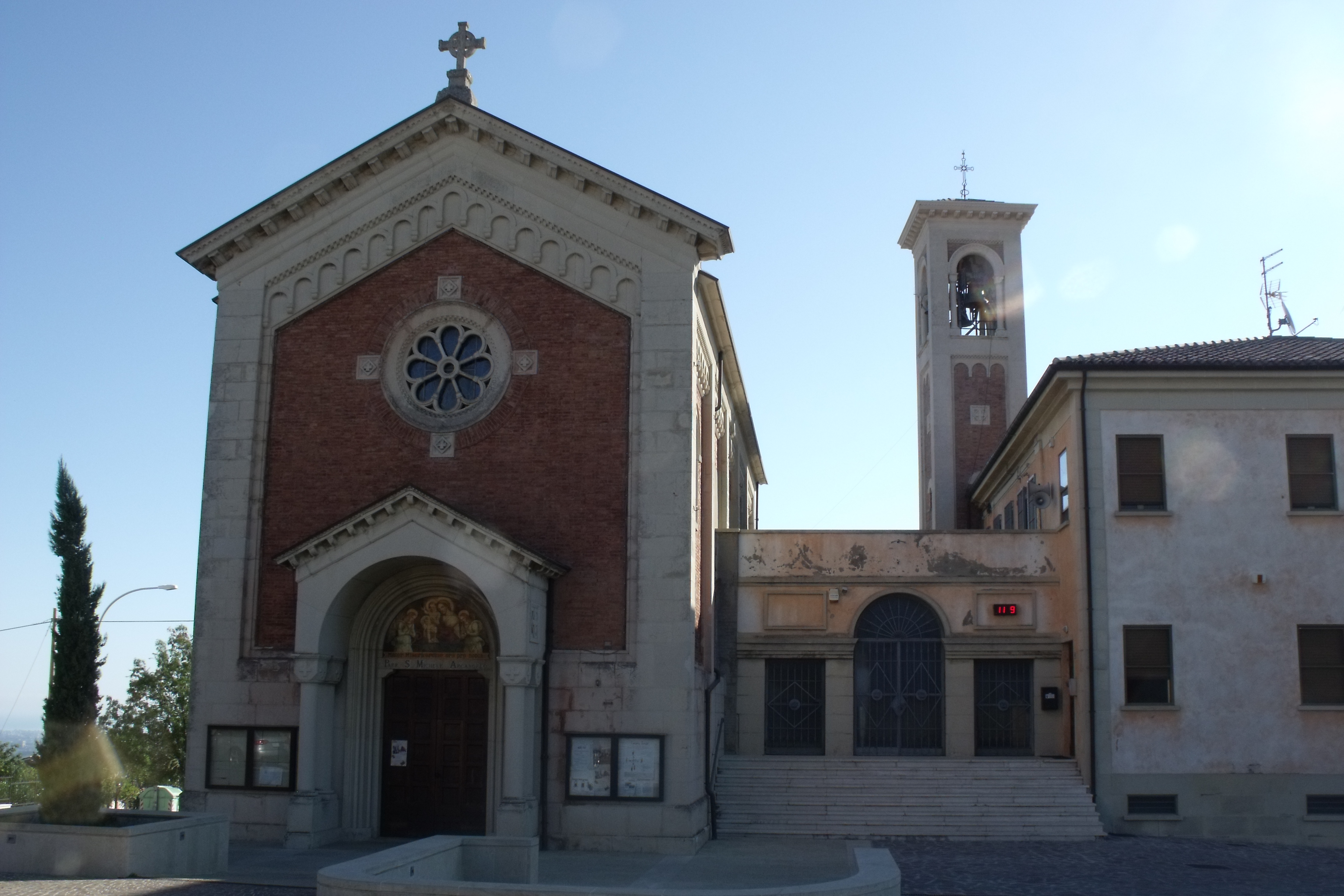 Church of San Michele Arcangelo in Domagnano, San Marino RSM